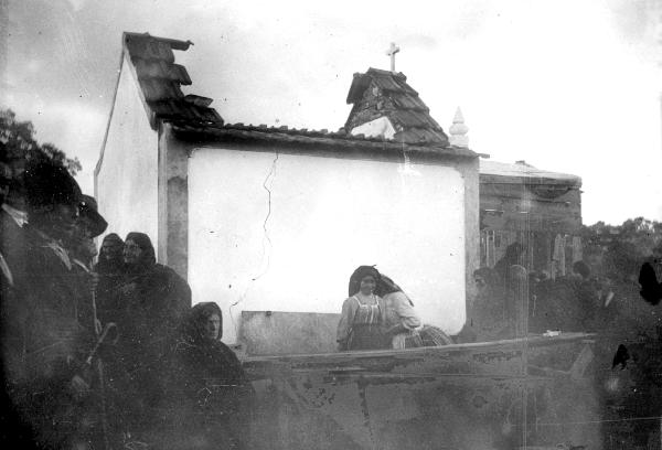 The Chapel of the Apparitions, in Fátima, Portugal, as it appeared after being bombed in March 1922.